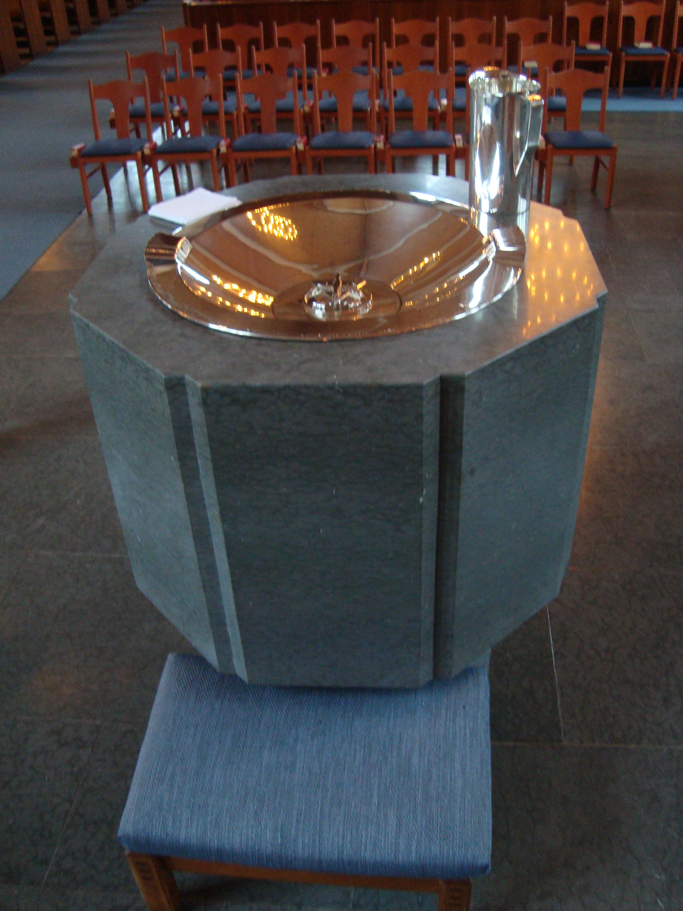 Hofors's church, Sweden